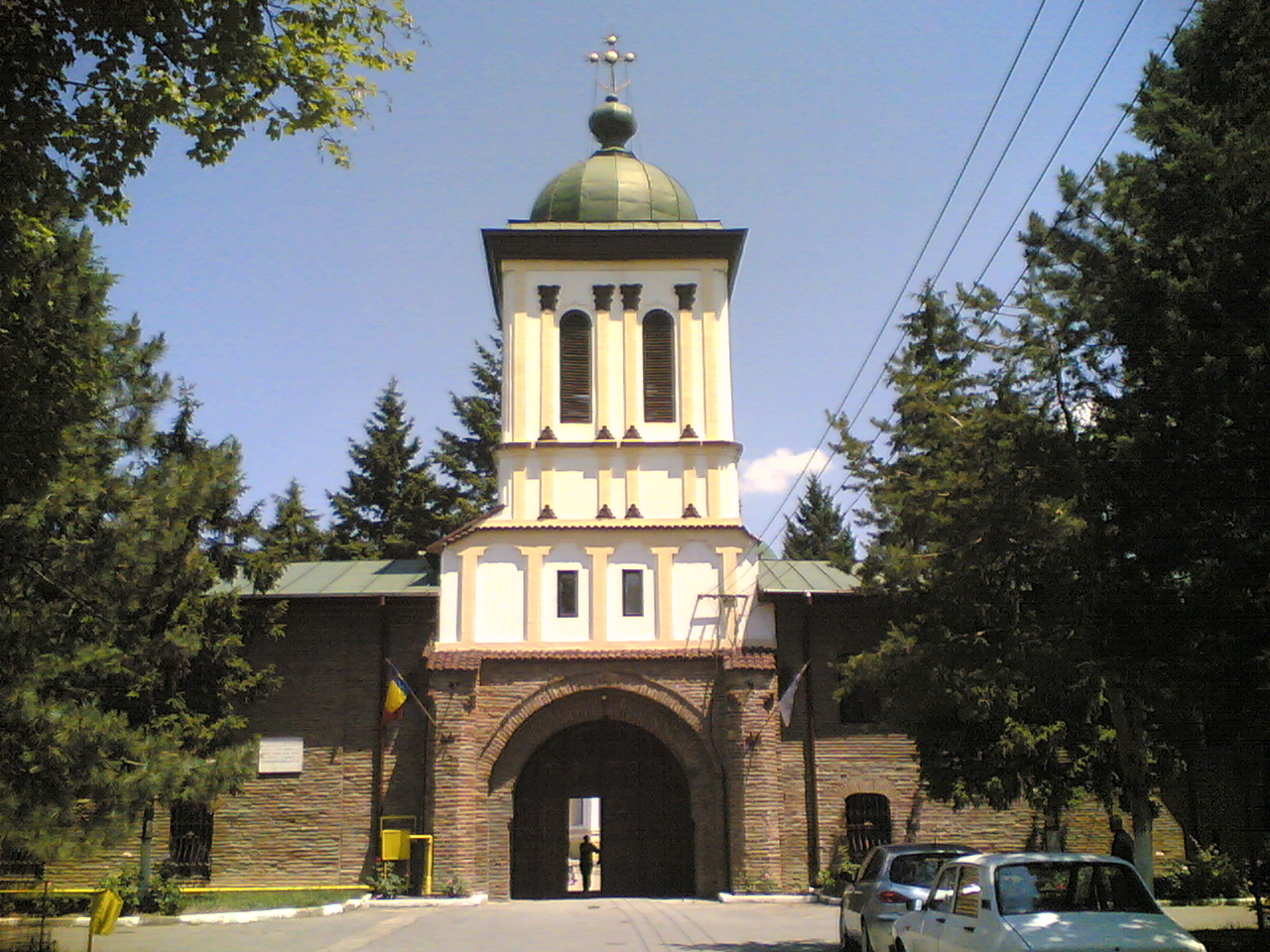 The Belfry of Plumbuita Monastery 03